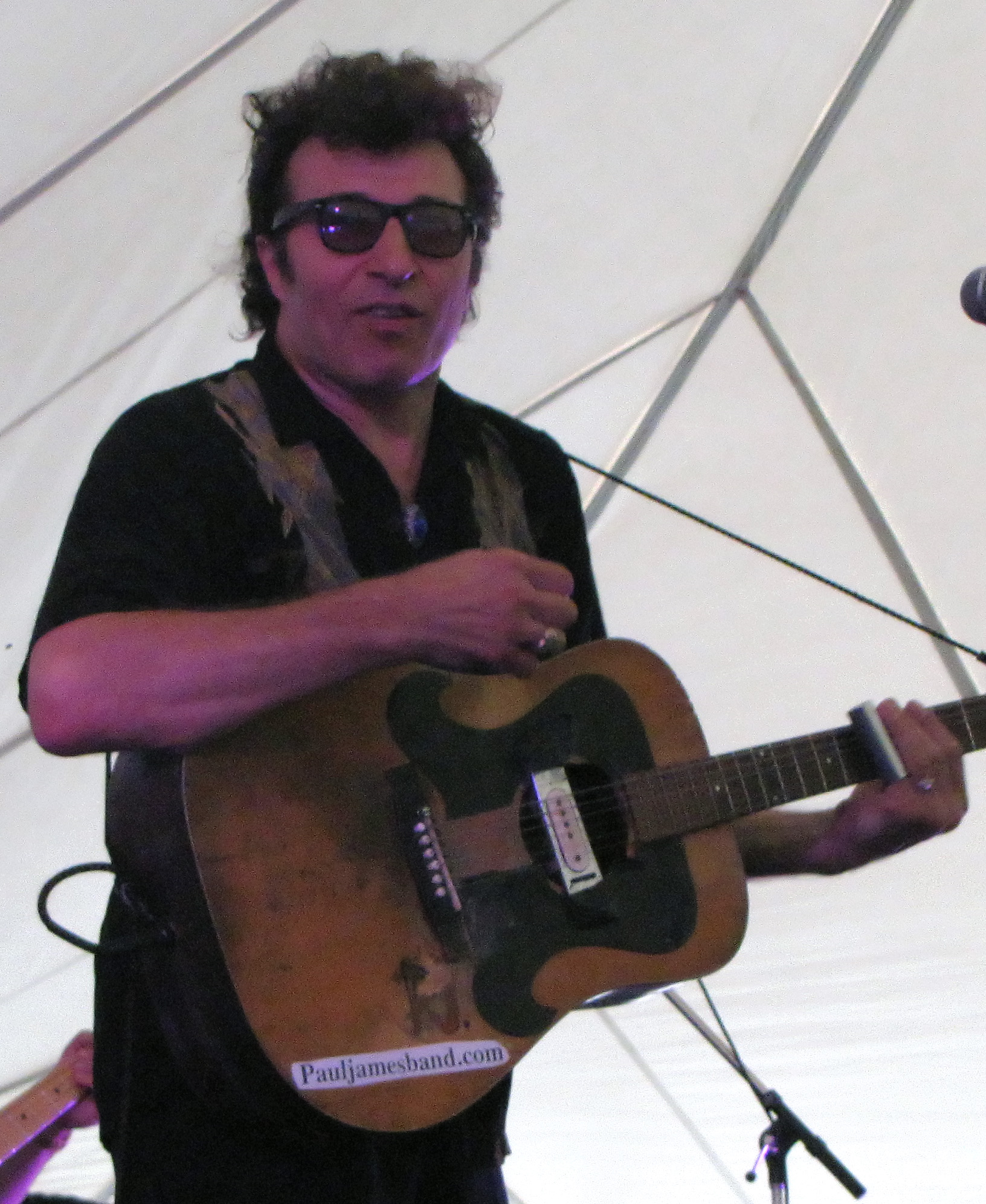 Bluesman Paul James in concert at the Kitchener Blues Festival